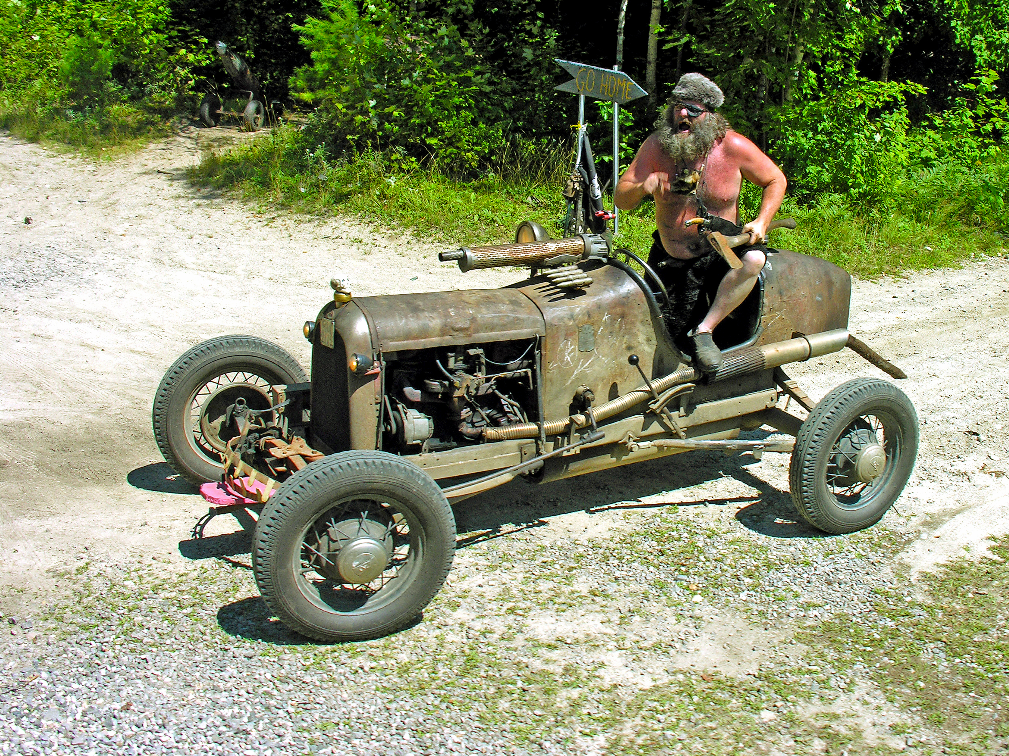 PLEASE, no multi invitations in your comments. DO NOT FEEL YOU HAVE TO COMMENT.Thanks. Wolfman’s territory... A longtime resident of these woods, the rabble rousin’ Wolfman will astound you with his antics, all in an attempt to keep curious visitors away from his secret mining operation of the precious mineral: unobtainium. Note to parents: Use discretion with your pre-school tots.